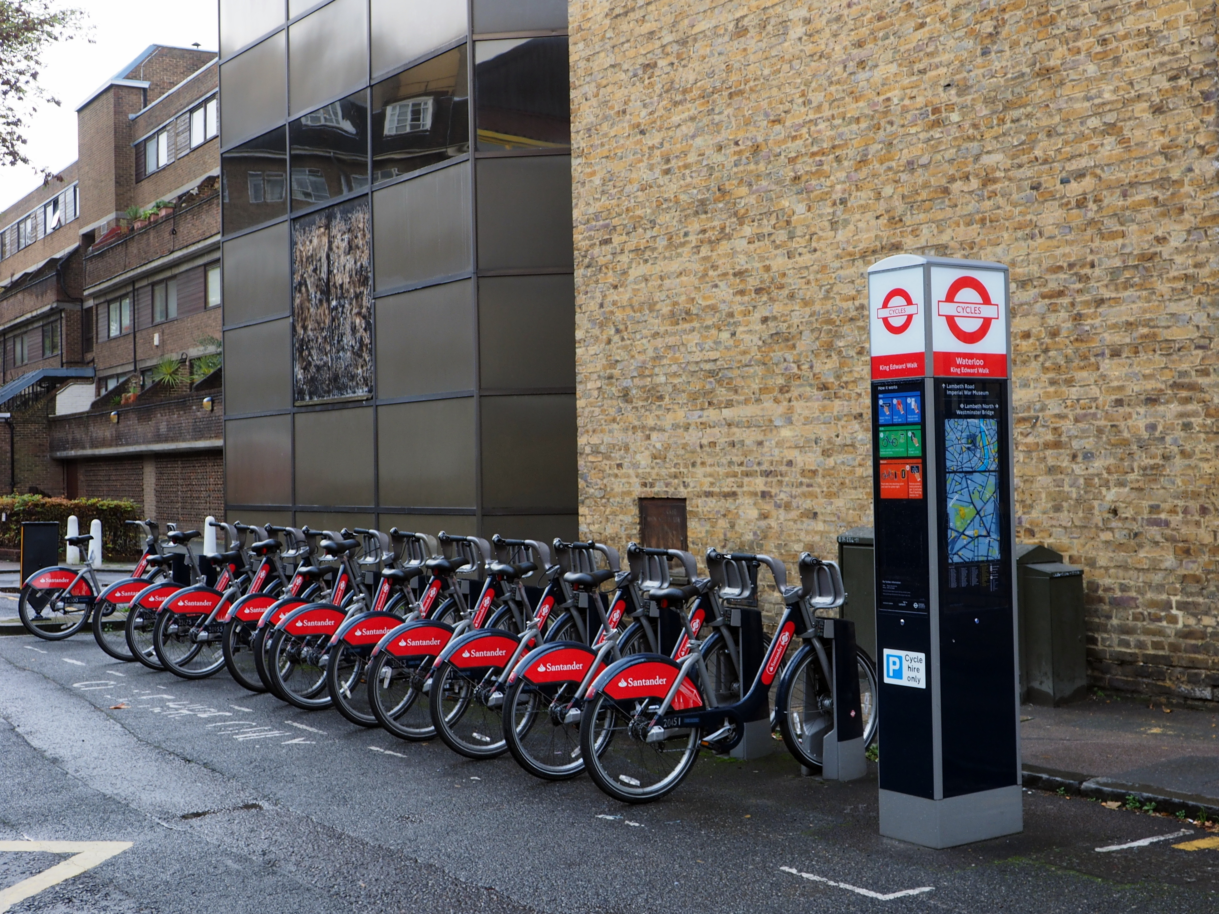 A Santander Cycles docking station in King Edward Walk, Lambeth North, London Borough of Lambeth - the east side of the street is the same block as St George's Cathedral, Southwark. Other major visitor attractions are Geraldine Mary Harmswoth Park at the south end of the street, containing the Imperial War Museum